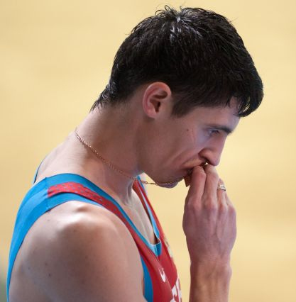 Pavel_Trenikhin during the 2013 European Athletics Indoor Championships